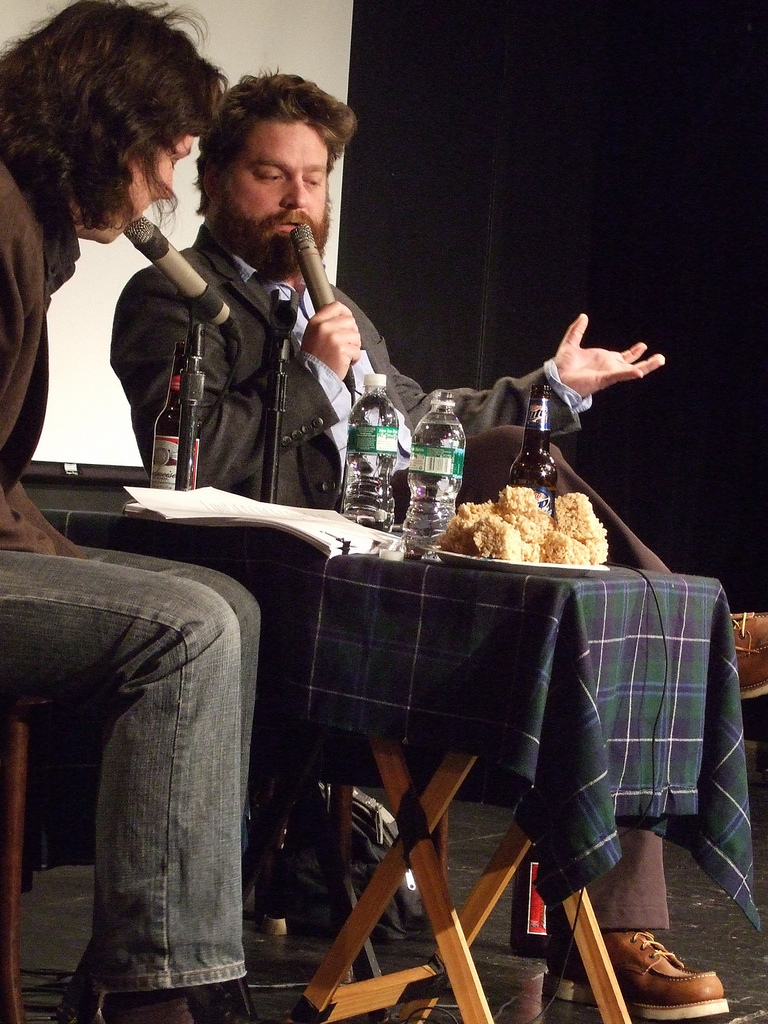 Zach Galifianakis In Inside Joke, UCBT NYC - March 6, 2008.